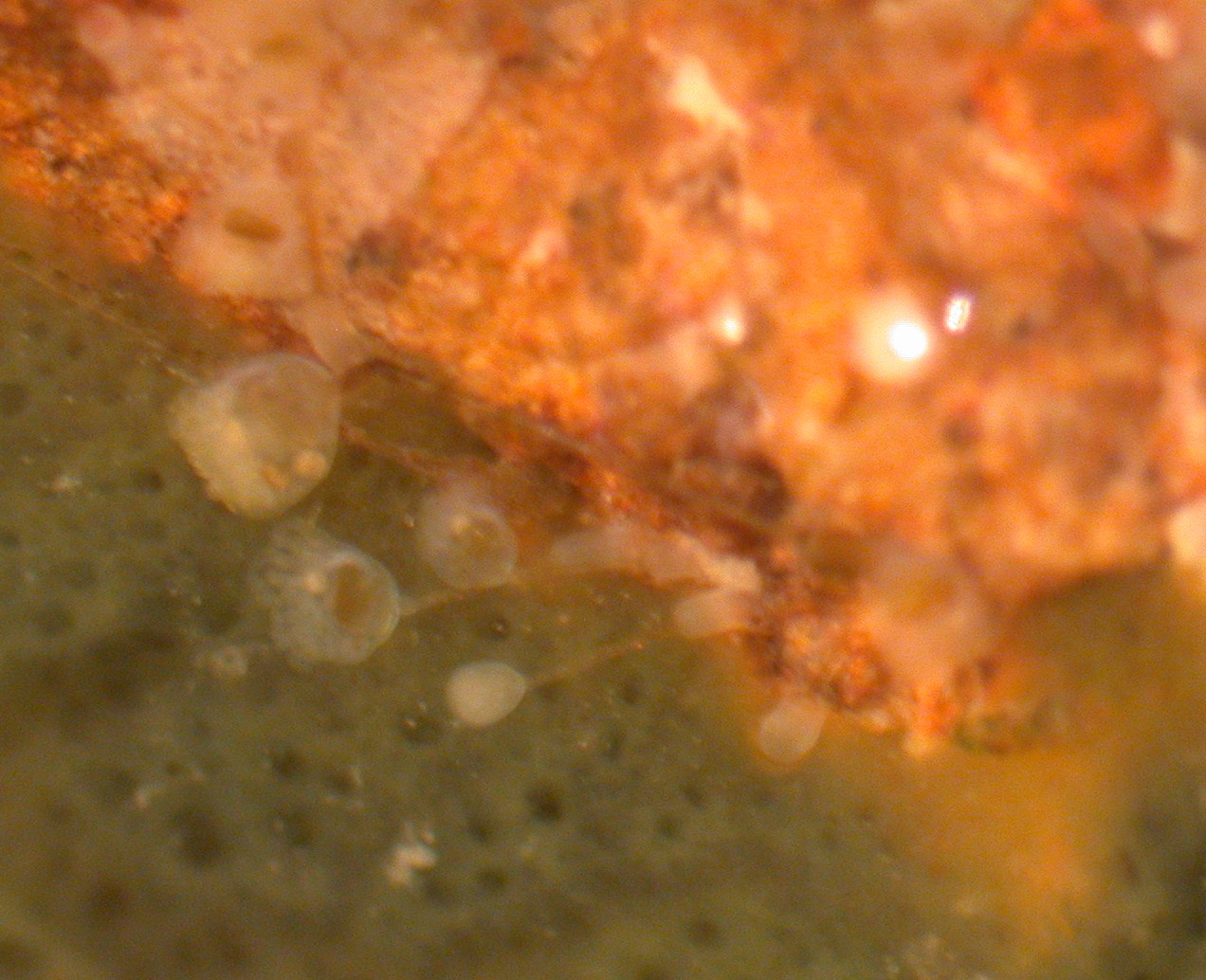 Barentsa discreta(Barentsiidae) Japanese name:Suzukokemusi Date;2007,05,18;Tanabe city, Wakayama prefecture, Japan Author;Keisotyo